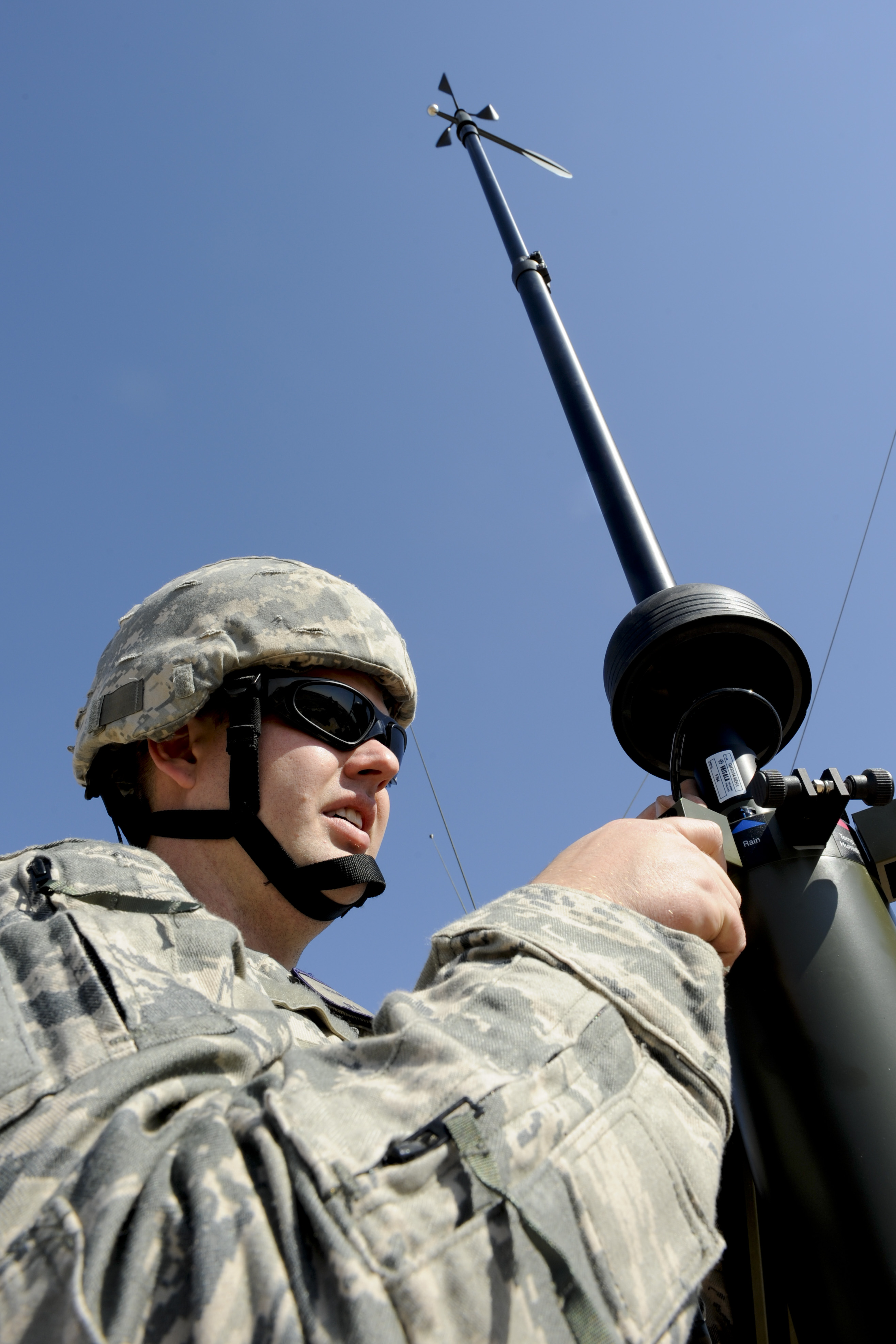 Senior Airman Ryan Unger, 22nd Expeditionary Weather Squadron weather technician, installs a TMQ-53 weather observation system March 2. Unger was part of a three-man weather team that traveled from Baghdad to retrieve U.S. Air Force equipment and install a newly purchased system as part of an ongoing process to set up a self-sustained Iraqi military weather service. Airman Unger is deployed from the 2nd Combat Weather Systems Squadron, Hurlburt Field, Fla., and is a native of Thousand Oaks, Calif.